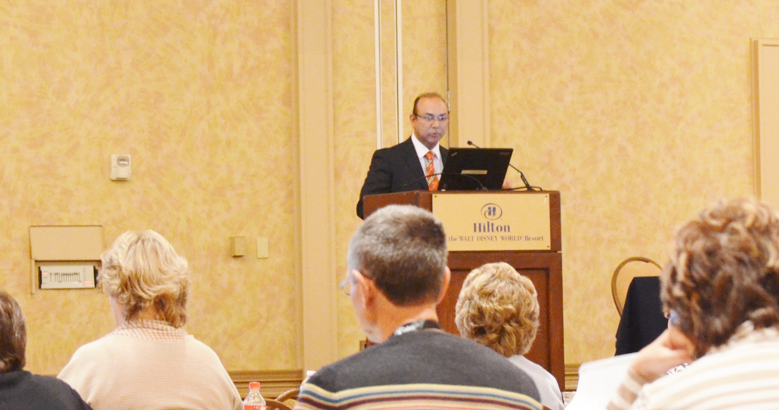 Dr. Safeek giving the featured address in Buena Vista, FL